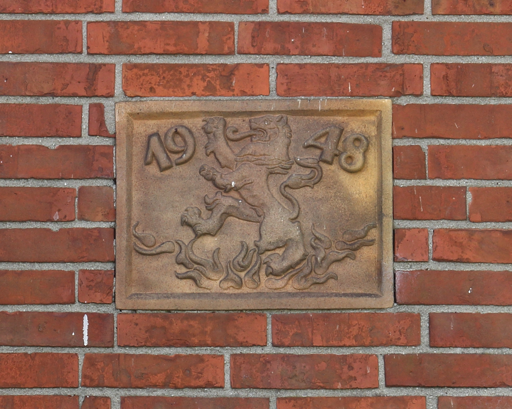 Resistance Netherlands, memorial stone in the farm Schotanus to Doniaga.